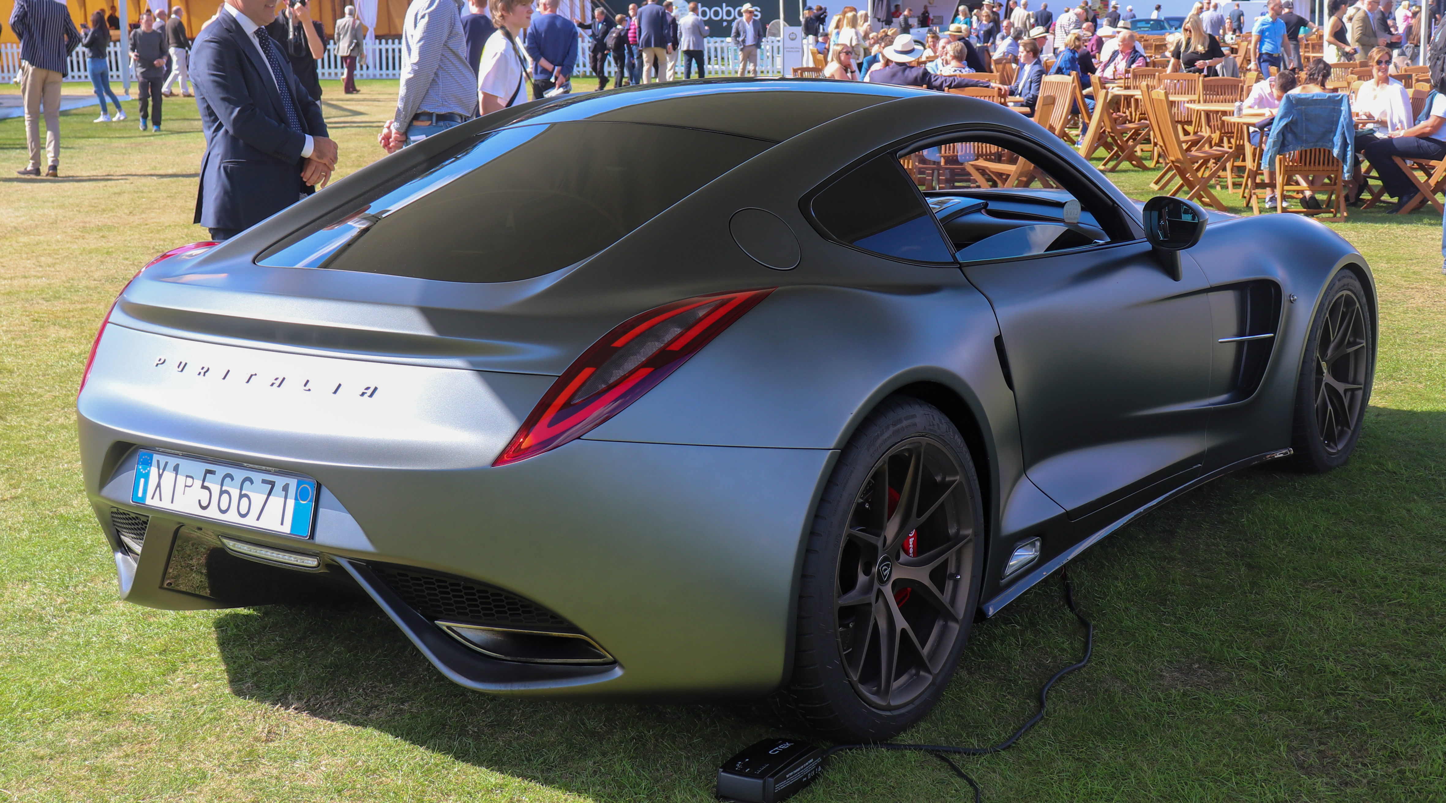 2019 Puritalia Berlinetta 5.0 Rear Taken at the Salon Privé Concours d'Elegance Classic Car Motor Show 2019, Blenheim Palace